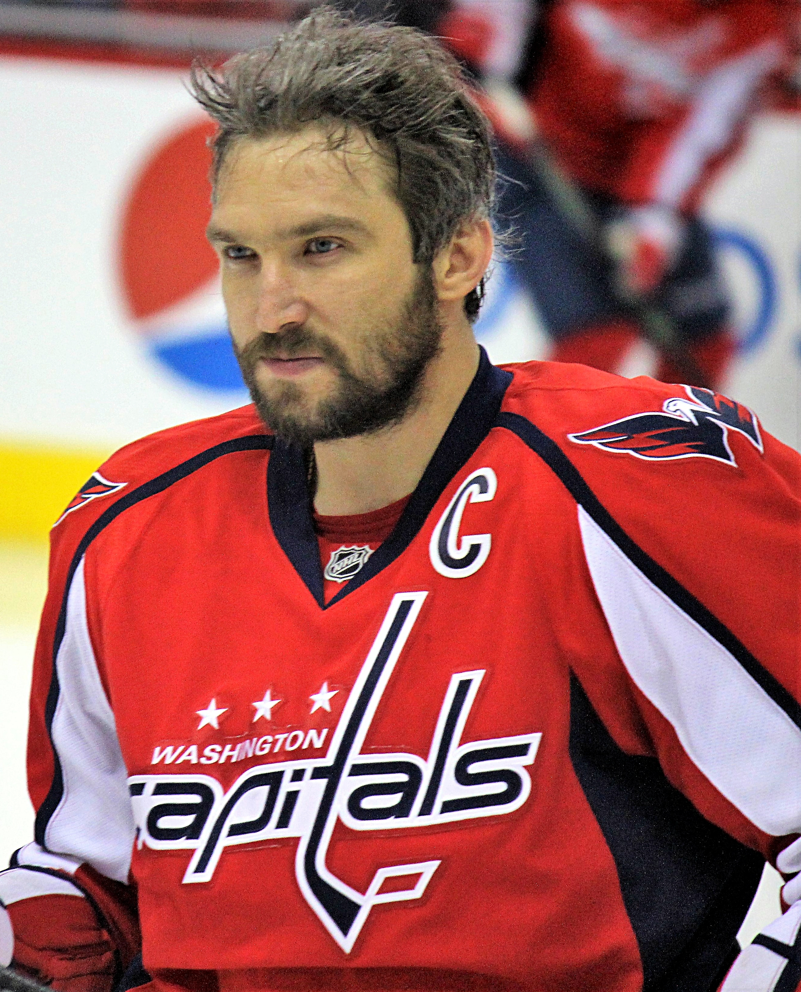 Washington Capitals captain Alex Ovechkin warms up prior to game 5 of their Eastern Conference quarterfinal series against the Pittsburgh Penguins, May 6, 2017, at Verizon Center in Washington, D.C.